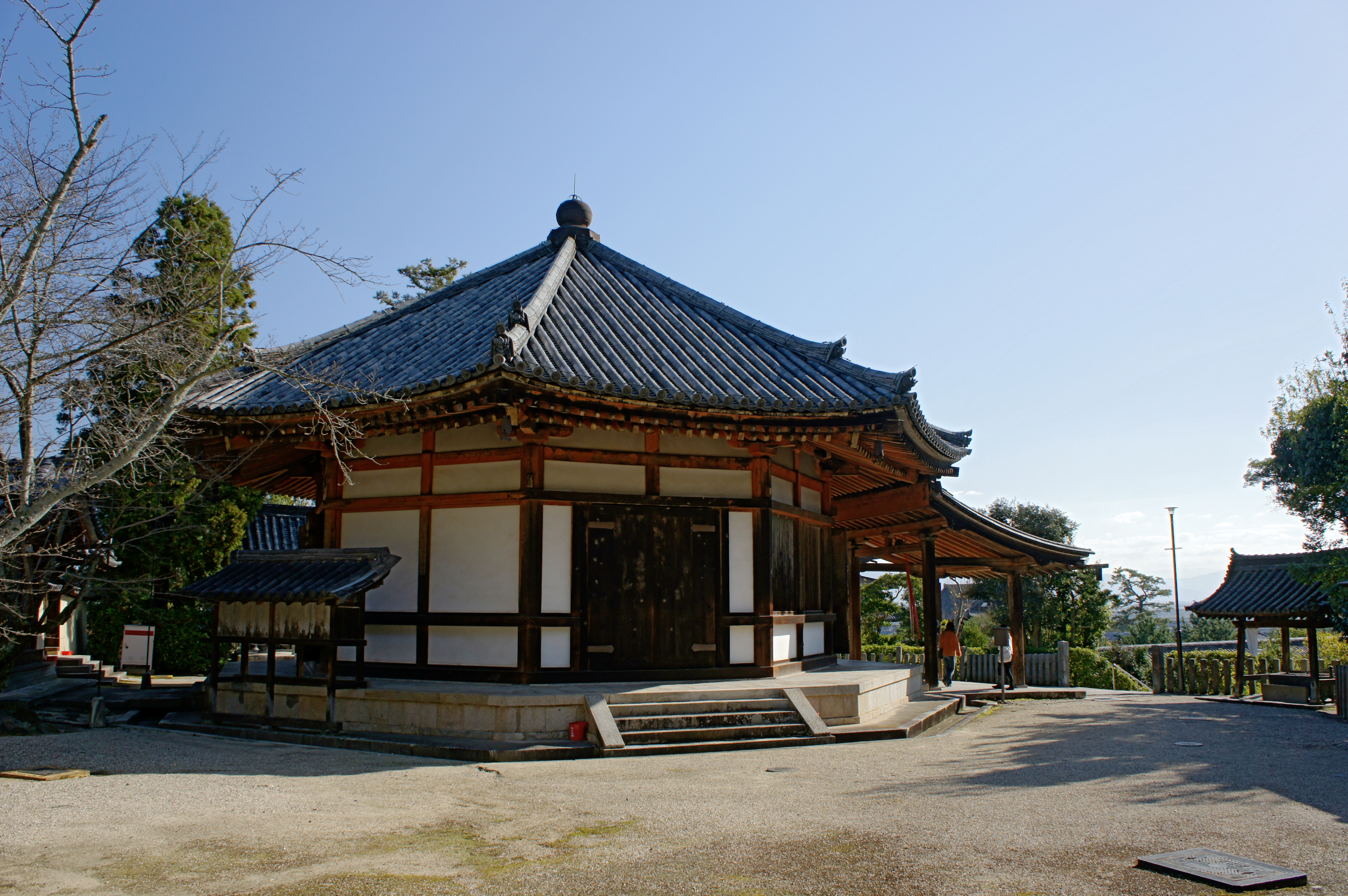 West Octagonal Hall of Hōryū-ji is a Japan's National Treasure. Hōryū-ji is a Buddhist temple in Ikaruga, Nara prefecture, Japan. It was registered as part of the UNESCO World Heritage Site "Buddhist Monuments in the Hōryū-ji Area".